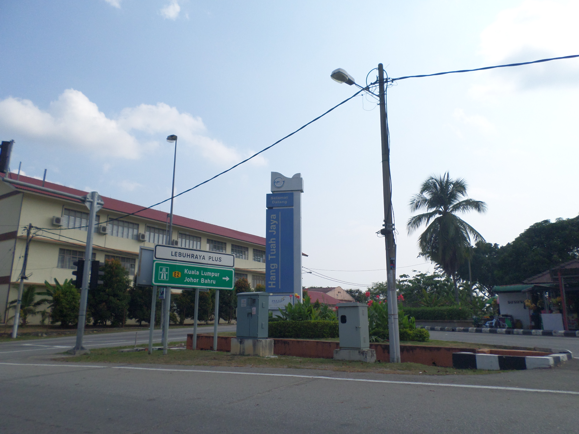 Hang Tuah Jaya, Malacca, MalaysiaBahasa Melayu: Hang Tuah Jaya, Melaka, Malaysia